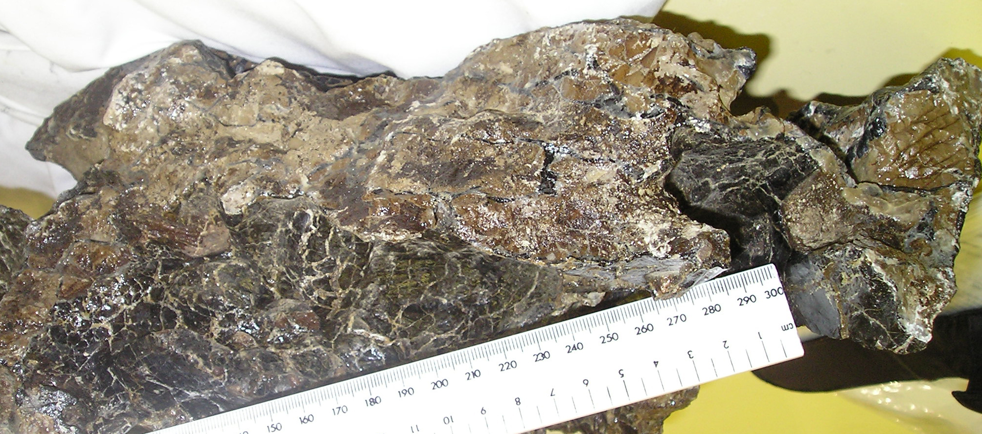 Specimen MIWG.7306, informally named "Angloposeidon", from the Wessex Formation of the Isle of Wight. The pneumatic structures of the inside of the vertebra can be seen.